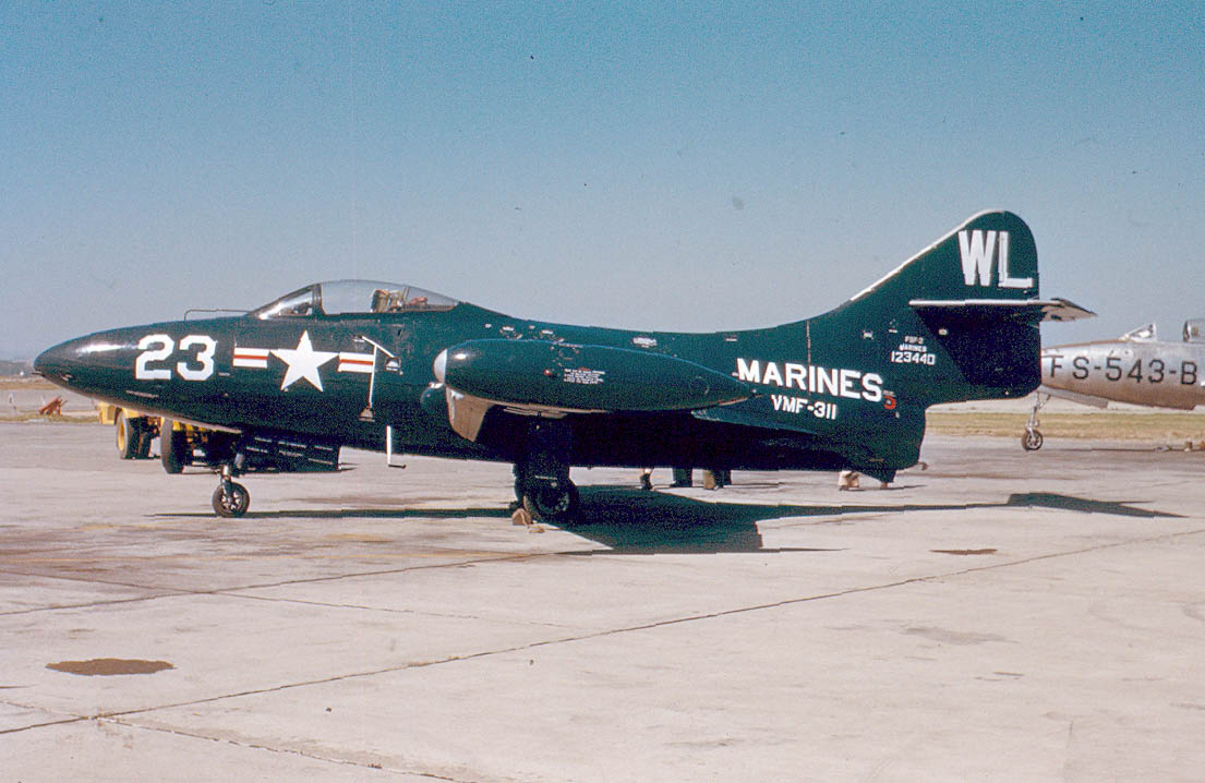 Grumman F9F-2 Panther Bu 123440 USMC Hamilton 1950; crashed into water while landing on USS Philippine Sea, in Sea of Japan 16. Feb. 1952. Pilot killed.